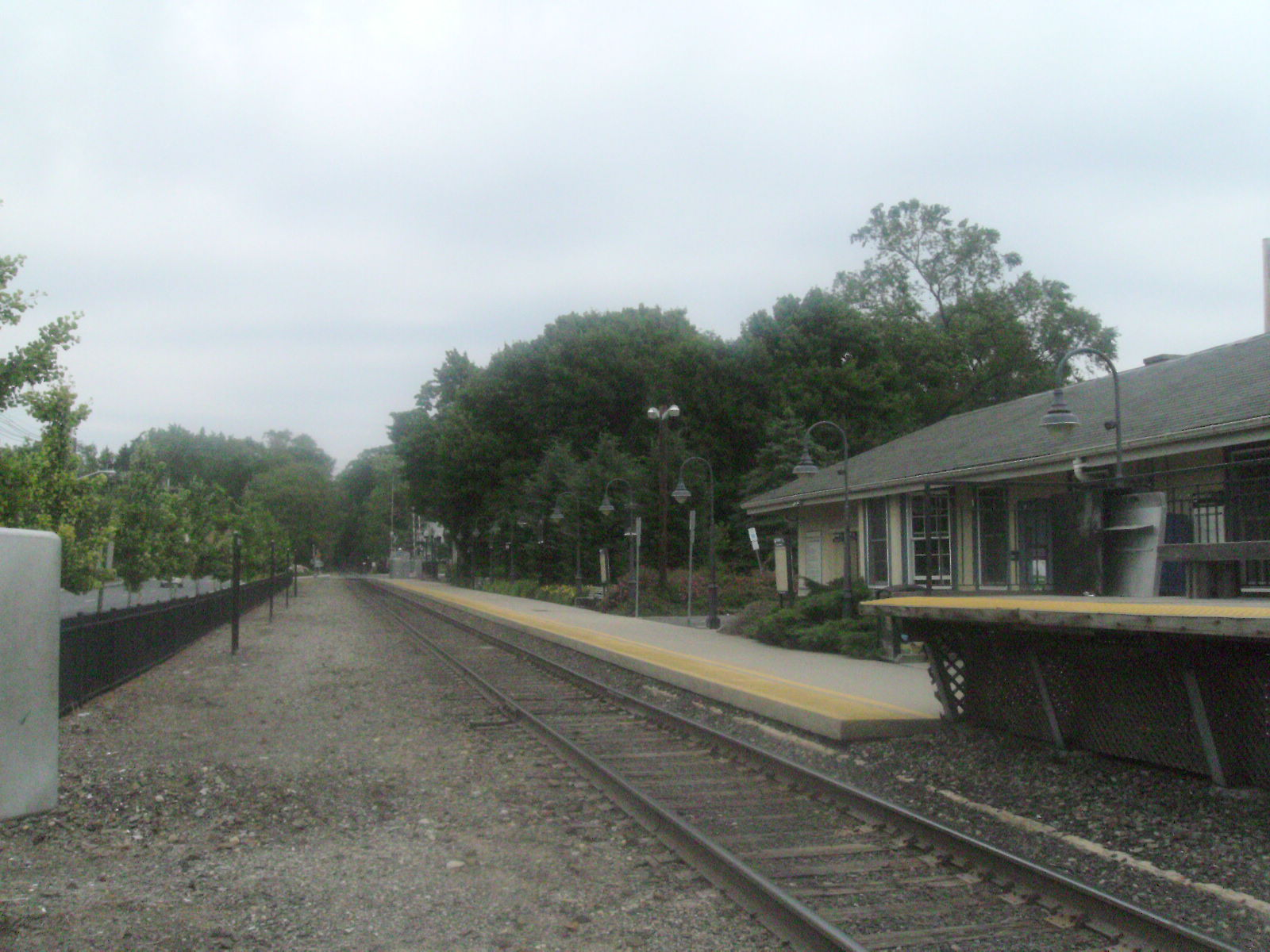 The Montvale Station on the Pascack Valley Line of New Jersey Transit.